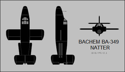 3-view silhouette of the Baachem Ba 349 Natter